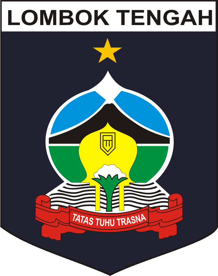 Coat of Arms (Lambang) of Regency (Kabupaten) Lombok Tengah (Central Lombok), Provinsi Nusa Tenggara Barat (West Lesser Sunda Islands Province), Indonesia